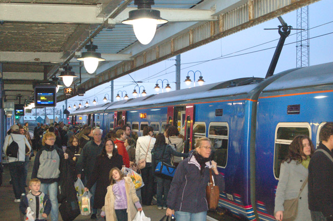 Ely railway station. Crowds on Platform 1 boarding a Class 365 electric unit on a down London to Kings Lynn service operated by Capital Connect